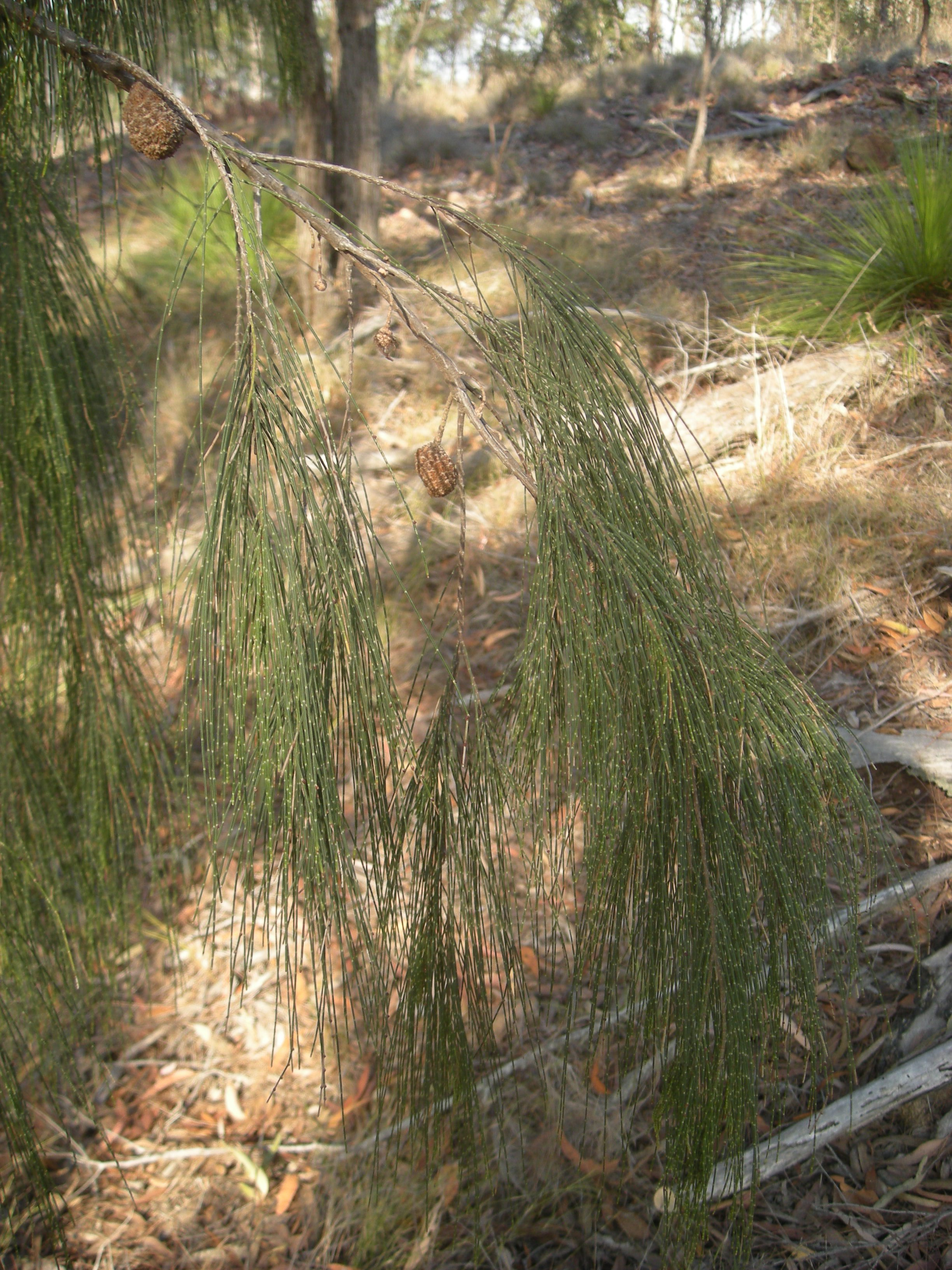 Allocasuarina torulosa foliage and fruit